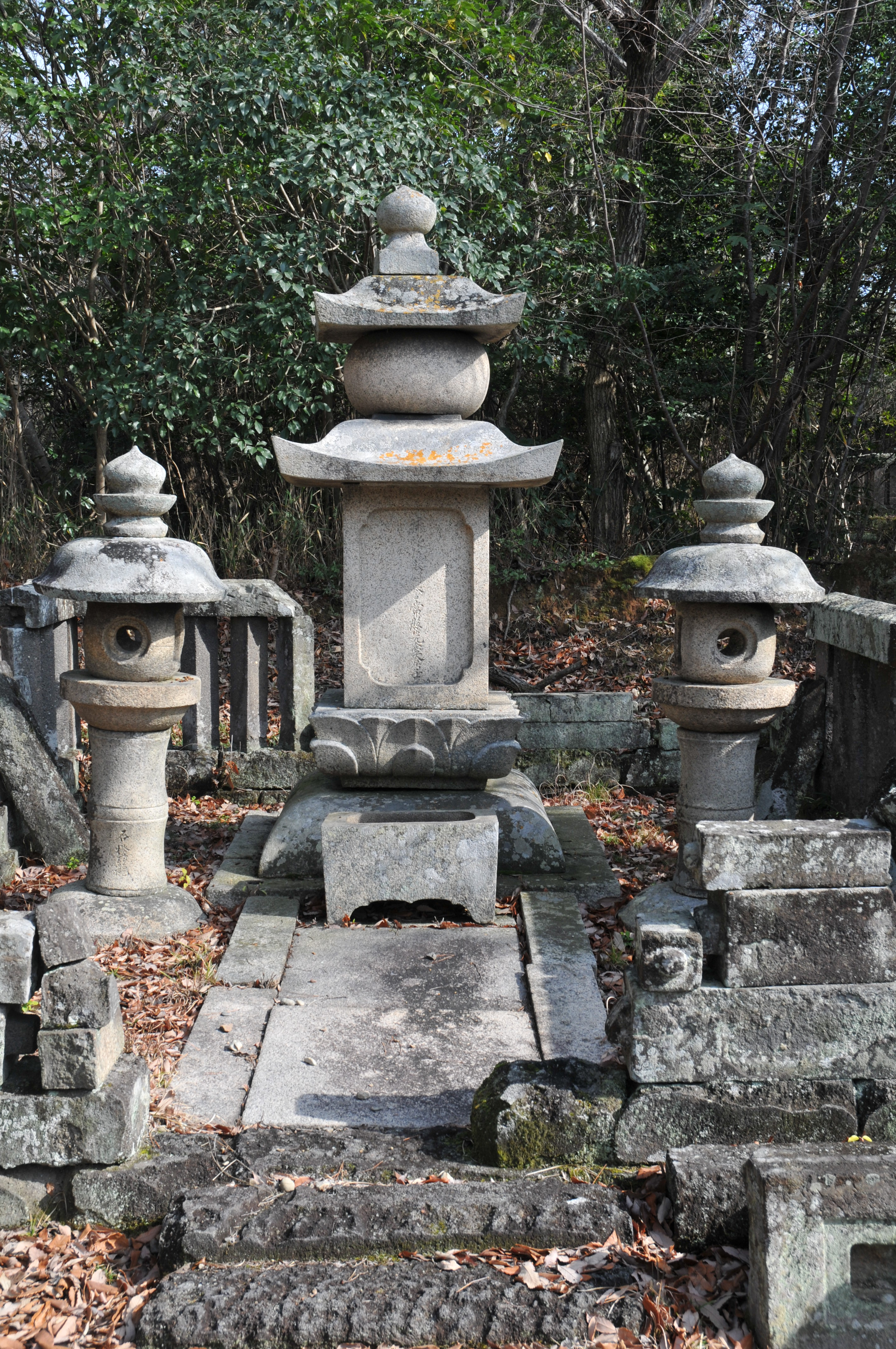 grave of Igi Tadayoshi(5th family head)